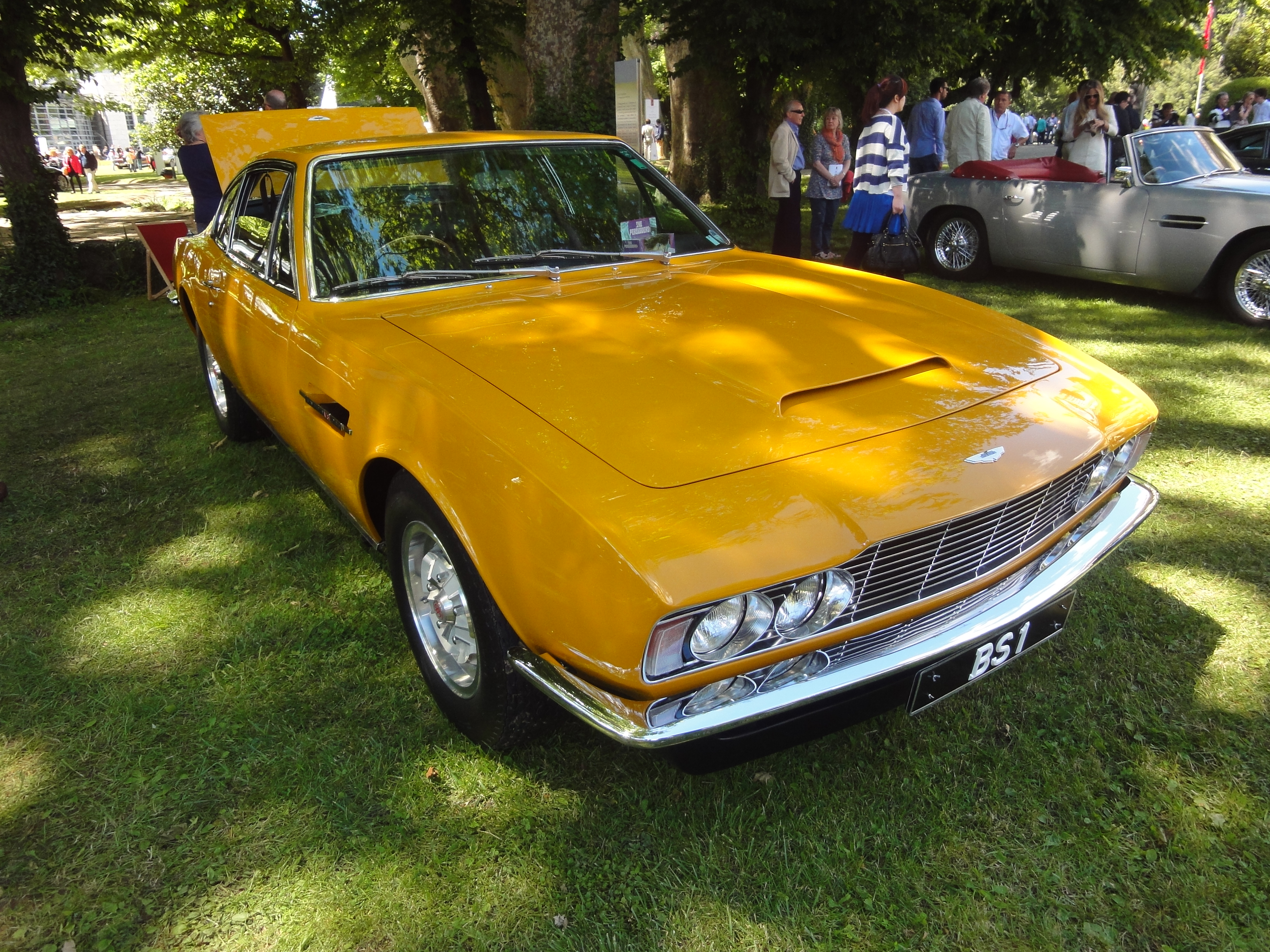 Aston Martin DBS (Stratton, UK; "BS1"). At the Concorso d'eleganza Villa d'Este in Italy on 26 May 2013. This car was used in the Persuaders movie.[1]